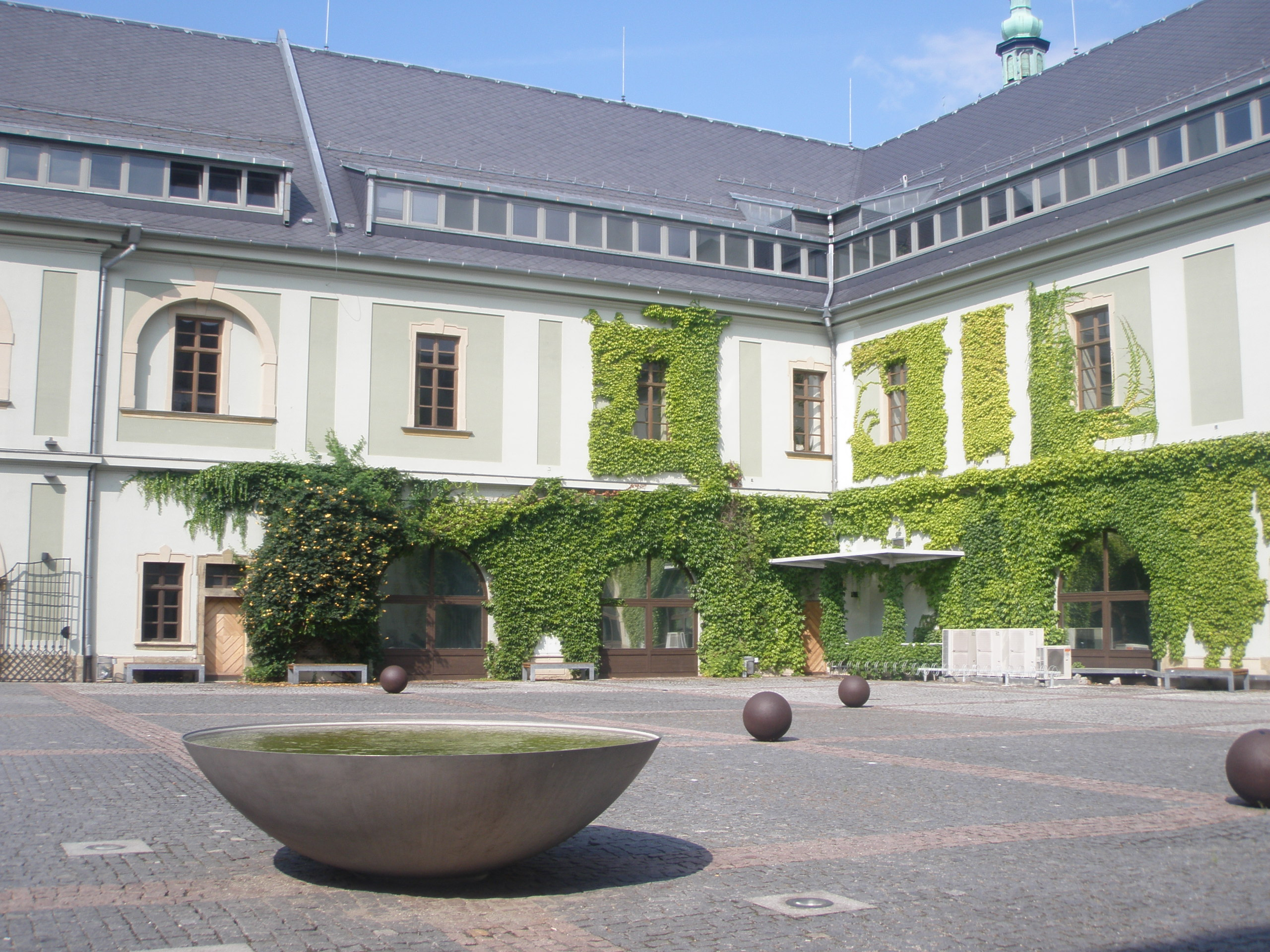 Courtyard of the Olomouc Artillery Armoury, today the Palacky University of Olomouc Central Library, also known as The Armoury